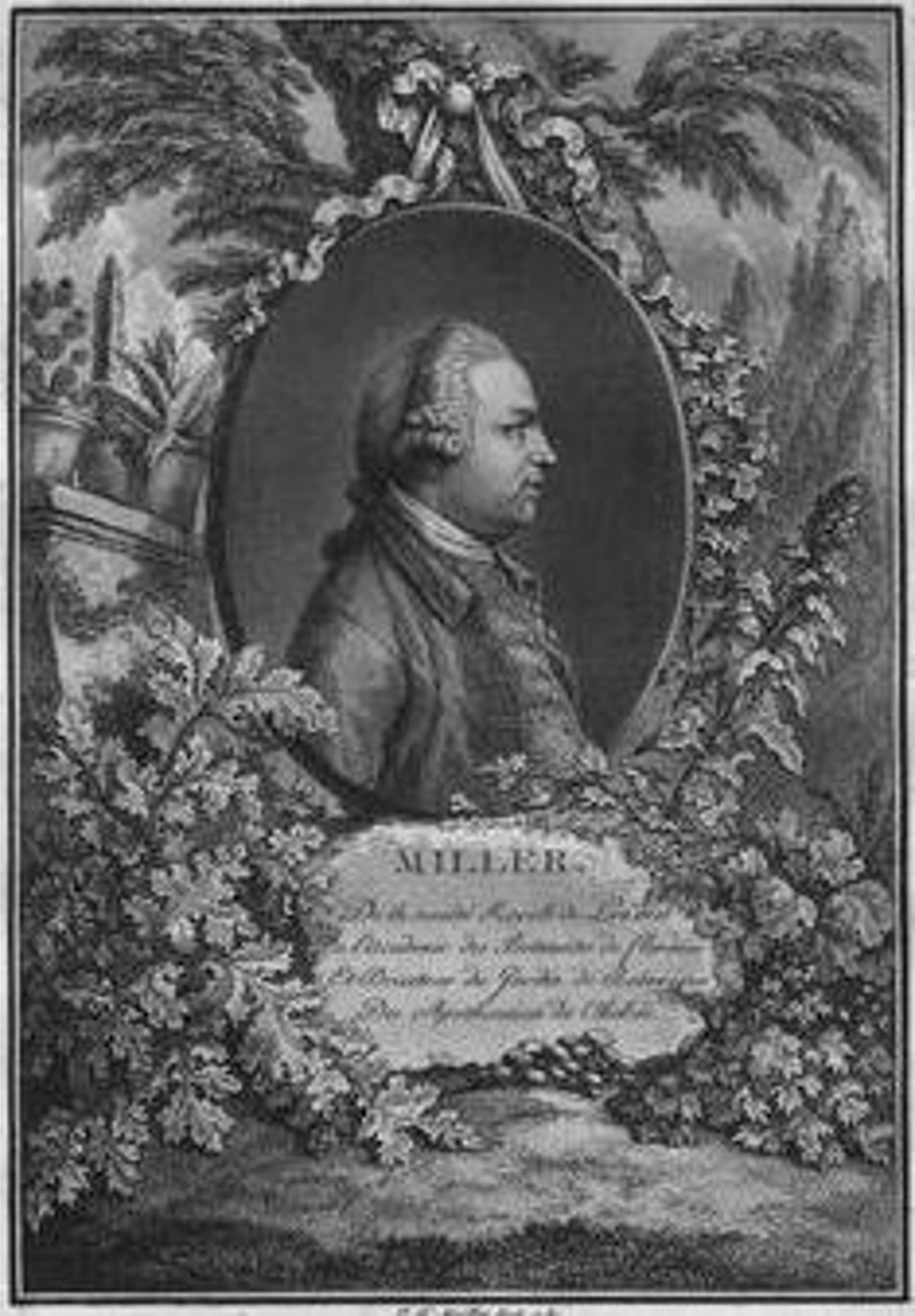 Reputed portrait of Scots botanist Philip Miller (1691 - 1771) from the French translation of The Gardener's Dictionary, in fact a self-portrait by John Miller.